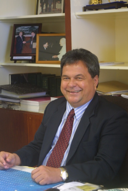 Photo of deputy prime minister of Samoa MISA TELEFONI RETZLAFF